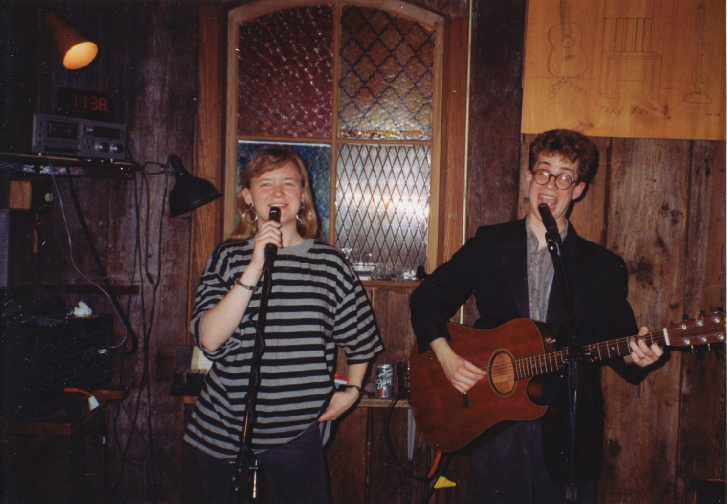 "The Anachronauts" (Scott Burright and Stacey Hathaway Burright); early gig at "The Neutral Ground" coffee house, Uptown New Orleans, 1992 Notice: Reuse authorized with attribution ONLY according to licenses specified by the author, unless specific permission given by author to reuse otherwise.